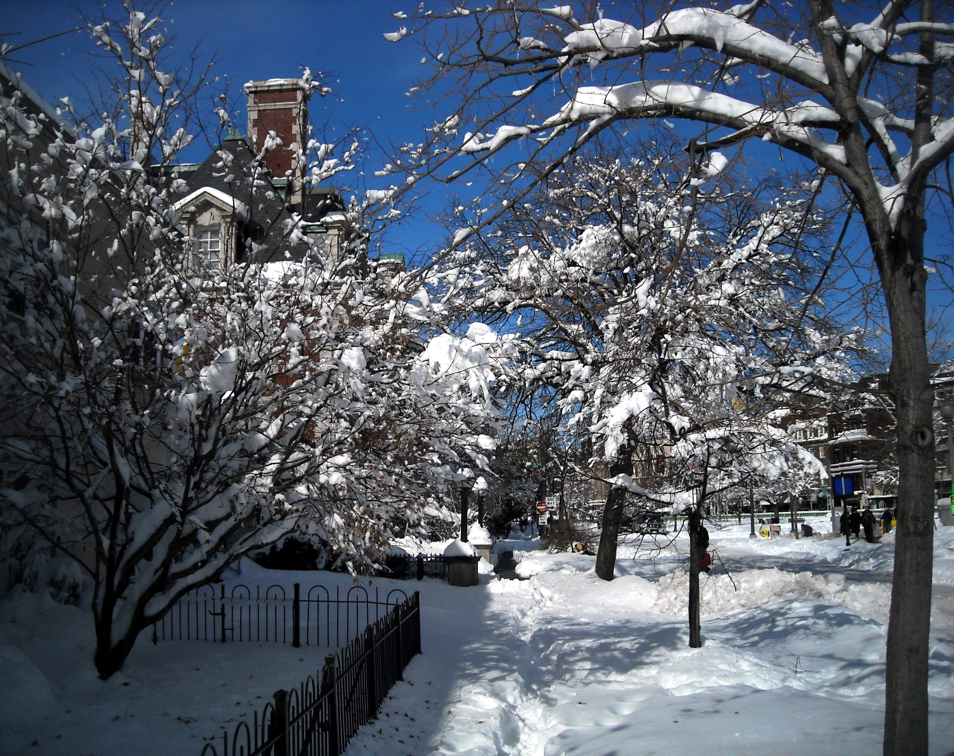 The sidewalk in front of the Hungarian Reformed Federation of America's Kossuth House, located in the Dupont Circle neighborhood of Washington, D.C., following the North American blizzard of 2010.